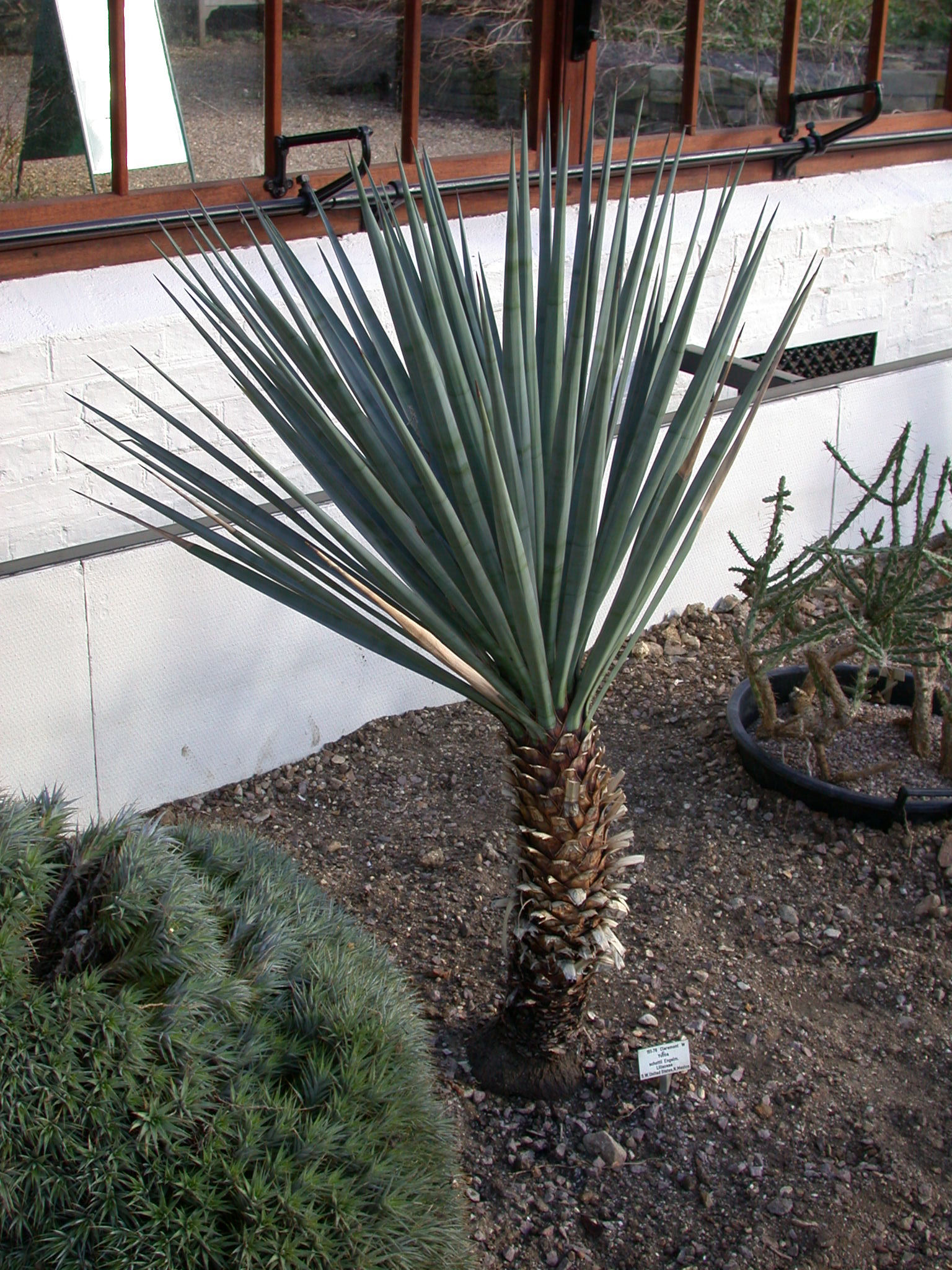 Specimen labelled: "Yucca schottii Engelm. Liliaceae. S.W. United States. N. Mexico." (APGII now includes in Agavaceae).